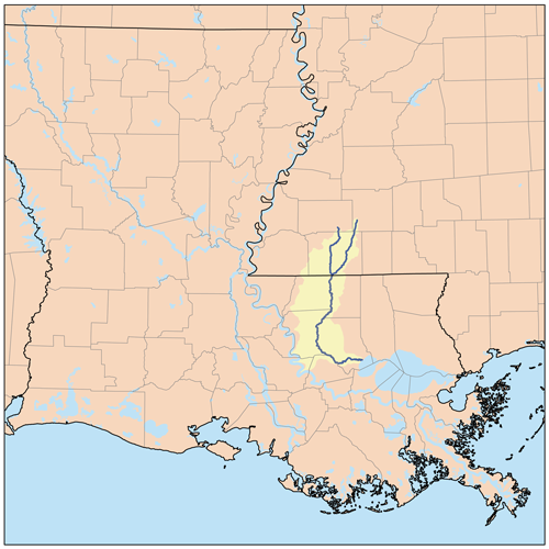 Map of the Amite River watershed.